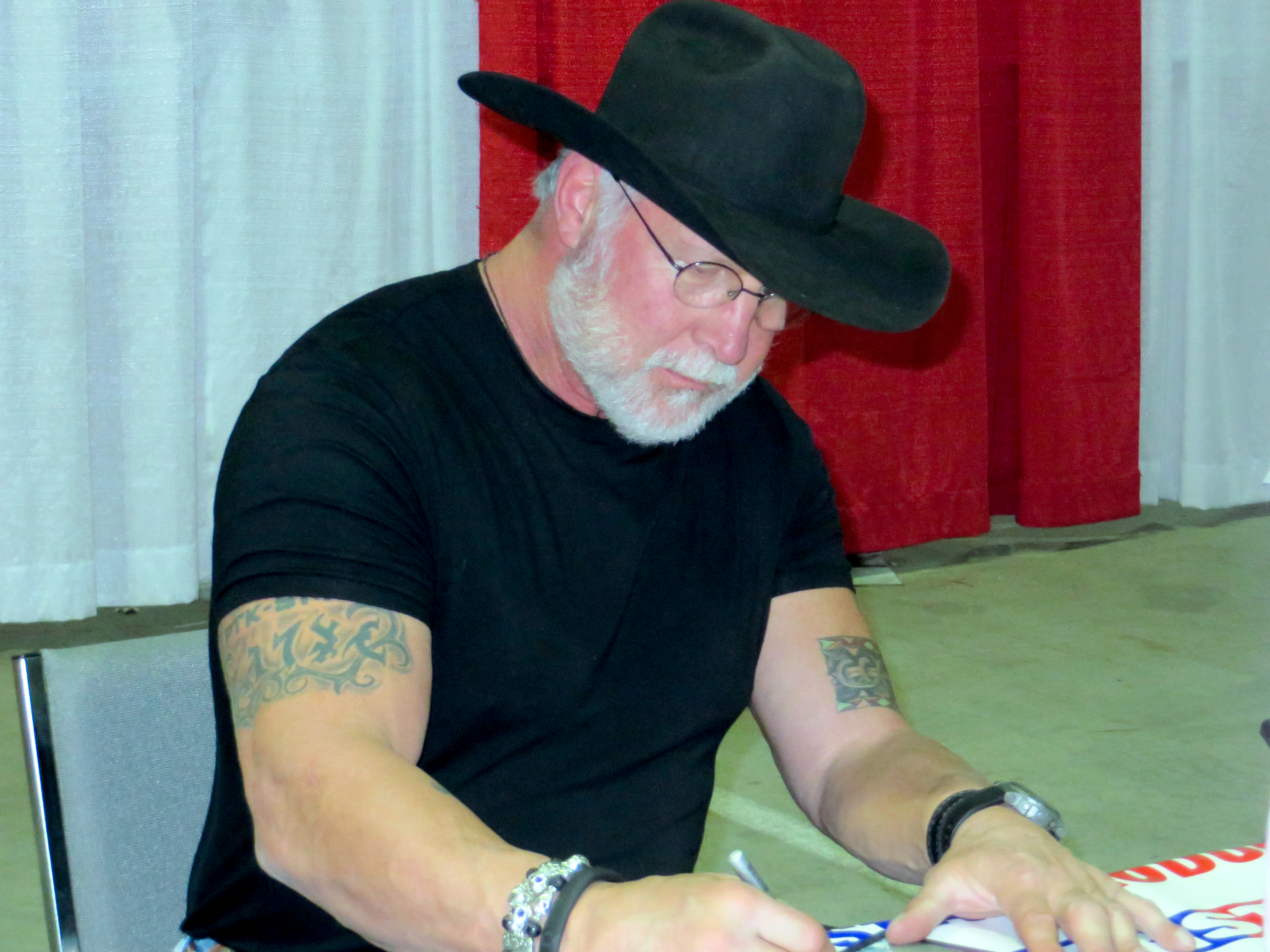 Randy White signs autographs for fans at a Houston sports collectors show.